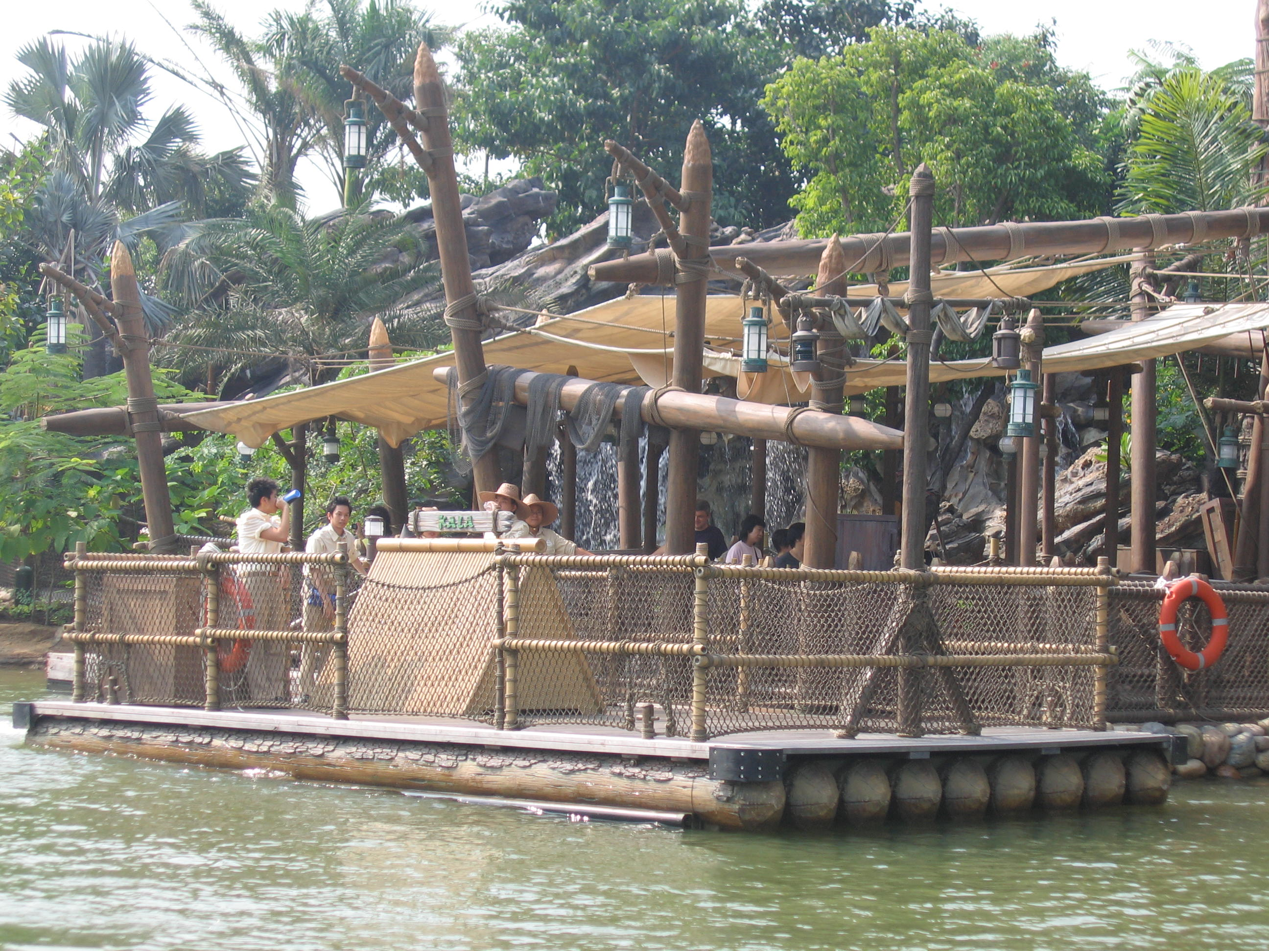 Raft to Tarzan's tree House,HKDL